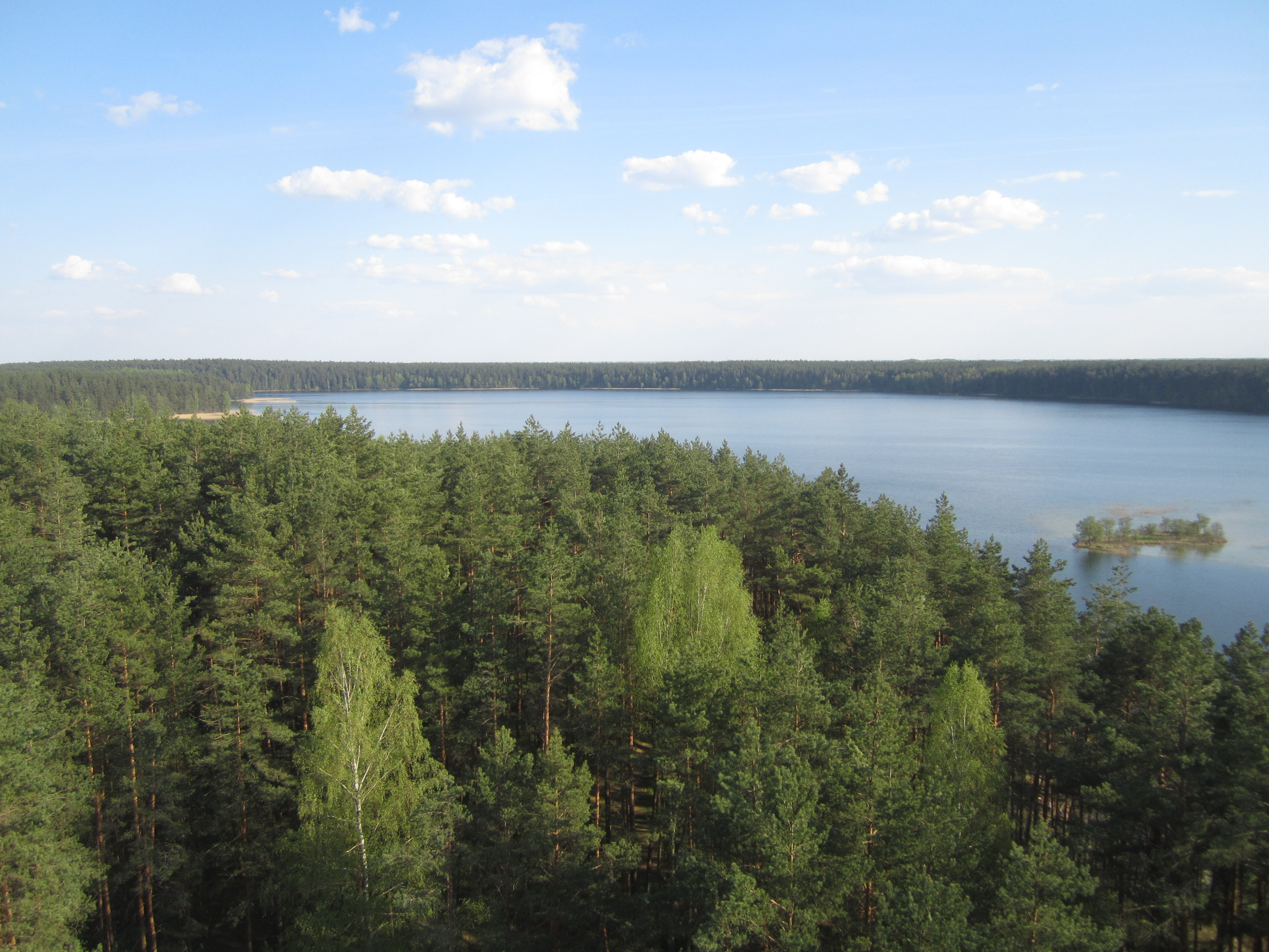 View of Baltieji Lakajai from Mindūnai Observation Tower